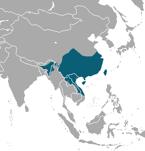 Chinese Ferret-badger (Melogale moschata) range